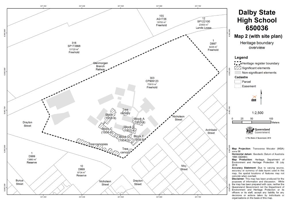 650036 - Dalby State High School - map 2 (2016)